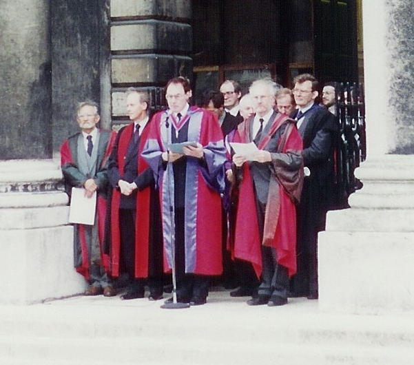 Provost Tom Mitchel announcing new scholars and fellows on Trinity Monday 1994 on the steps of the exam hall (public theatre) in Trinity College Dublin. Tom Mitchel, Andrew Mayes, David Spearman and other academics present.